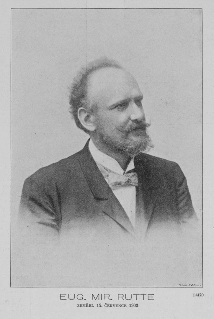 Portrait of Eugen Miroslav Rutte (1855-1903), Czech composer and writer